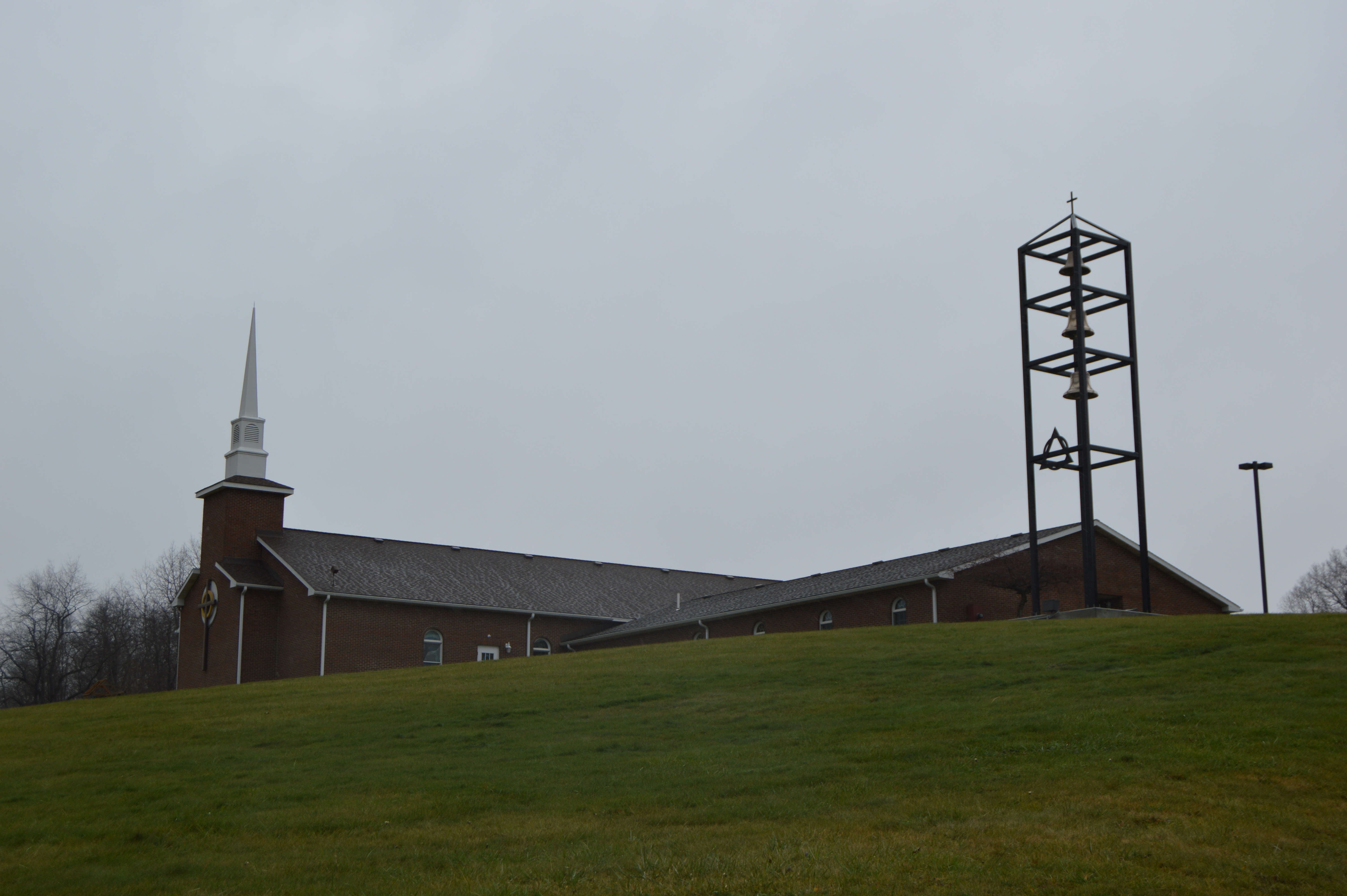 Roadside view of Holy Trinity Lutheran Church, located at 2217 Pennsylvania Route 68 northeast of Chicora in Fairview Township, Butler County, Pennsylvania, United States.